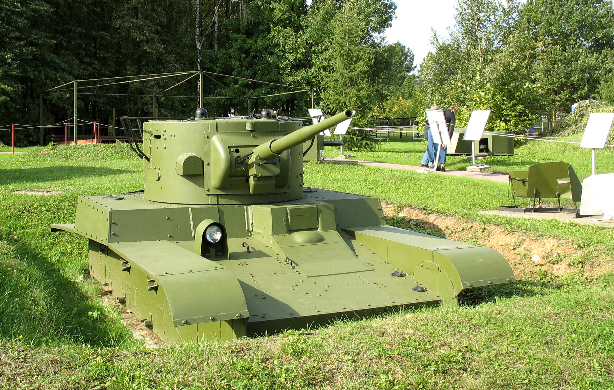 Tank T-46 without chassis. It was used as a motionless weapon emplacement in укрепрайоне. It is found on Karelian isthmus at settlement Sosnovo of Leningrad region by search association "Height". It is restored 38 scientific research institutes MO of the Russian Federation in December, 2004